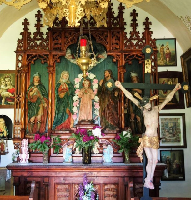 Schagerl Dreifaltigkeit